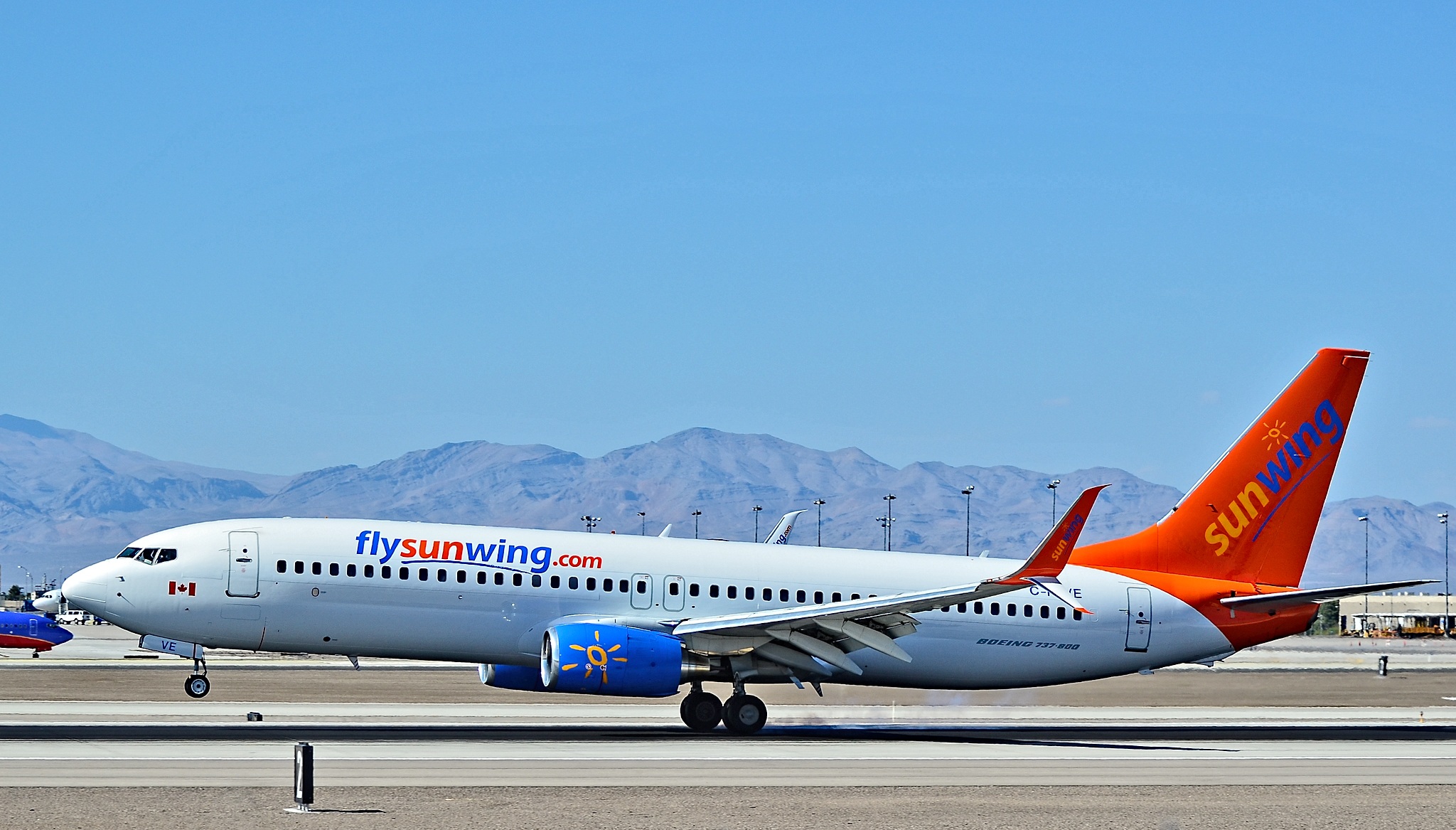 Split Scimitar Winglet Las Vegas - McCarran International Airport (LAS / KLAS) USA - Nevada May 10, 2015 Photo: Tomás Del Coro